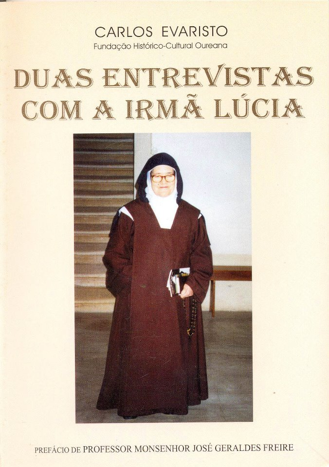 Duas Entrevistas com a Irmã Lúcia (Português) by Carlos Evaristo (Copyright 1998)